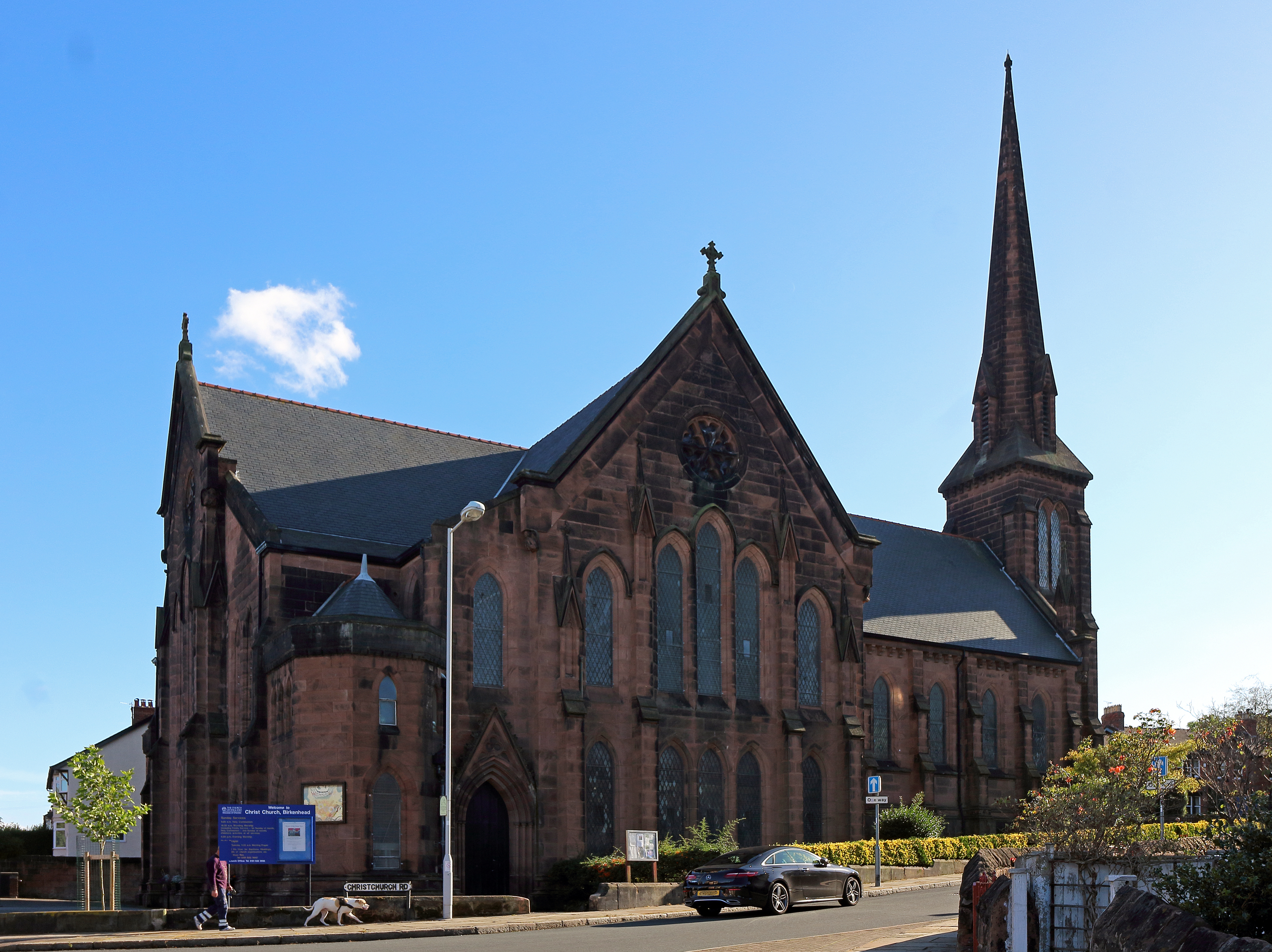 View south from Slatey Road as it becomes Bessborough Road.